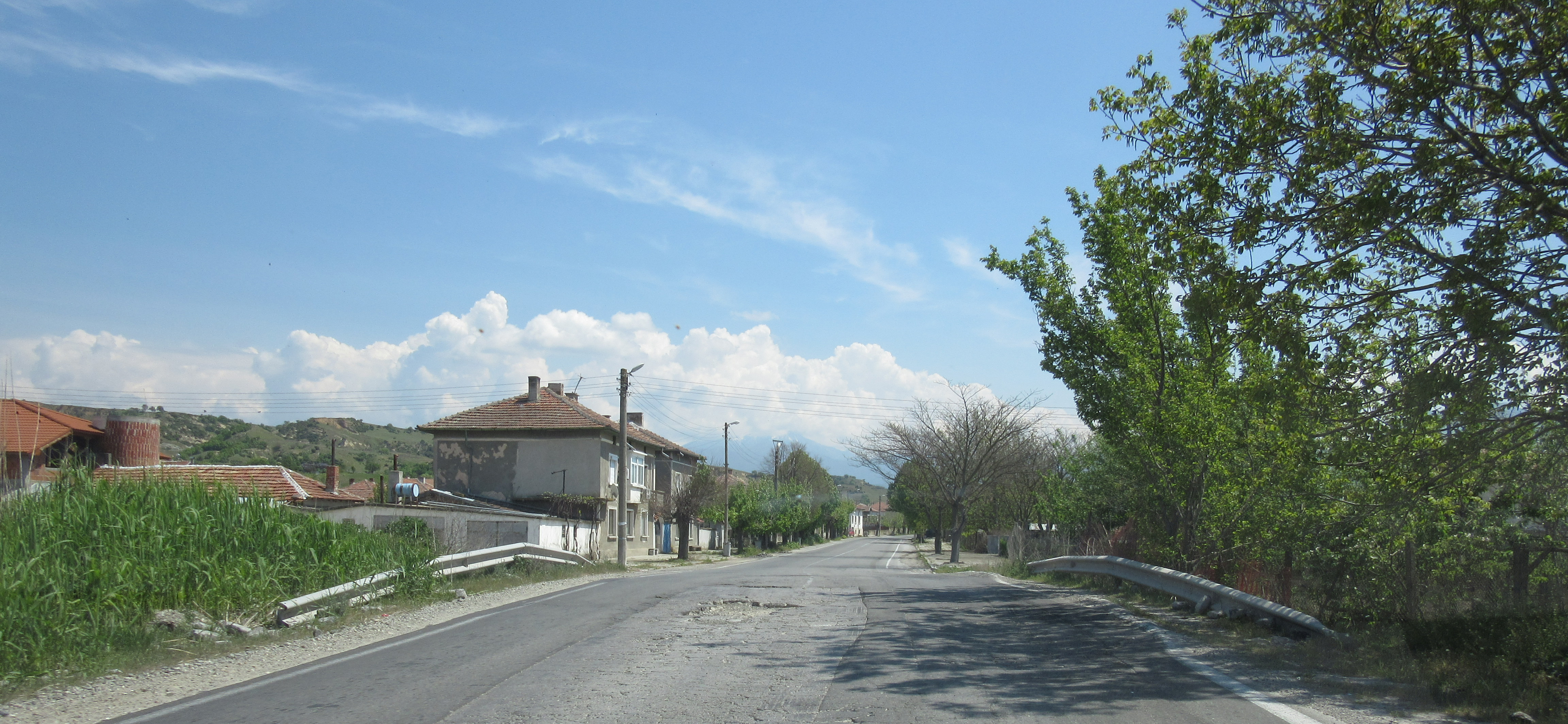 The main street of Marino Pole (Blagoevgrad Province)